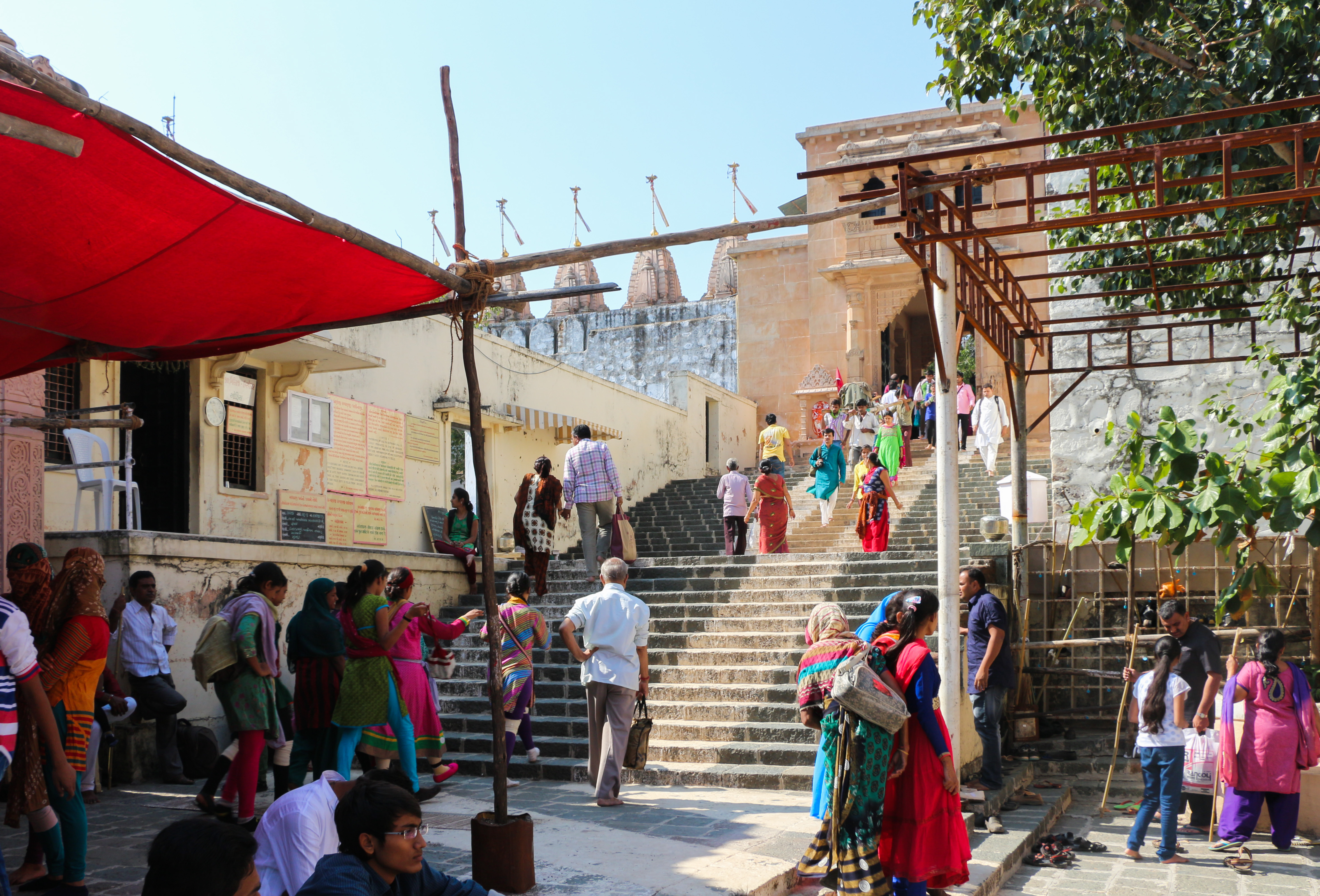 Entrance to Palitana temples, Palitana, Gujarat, India